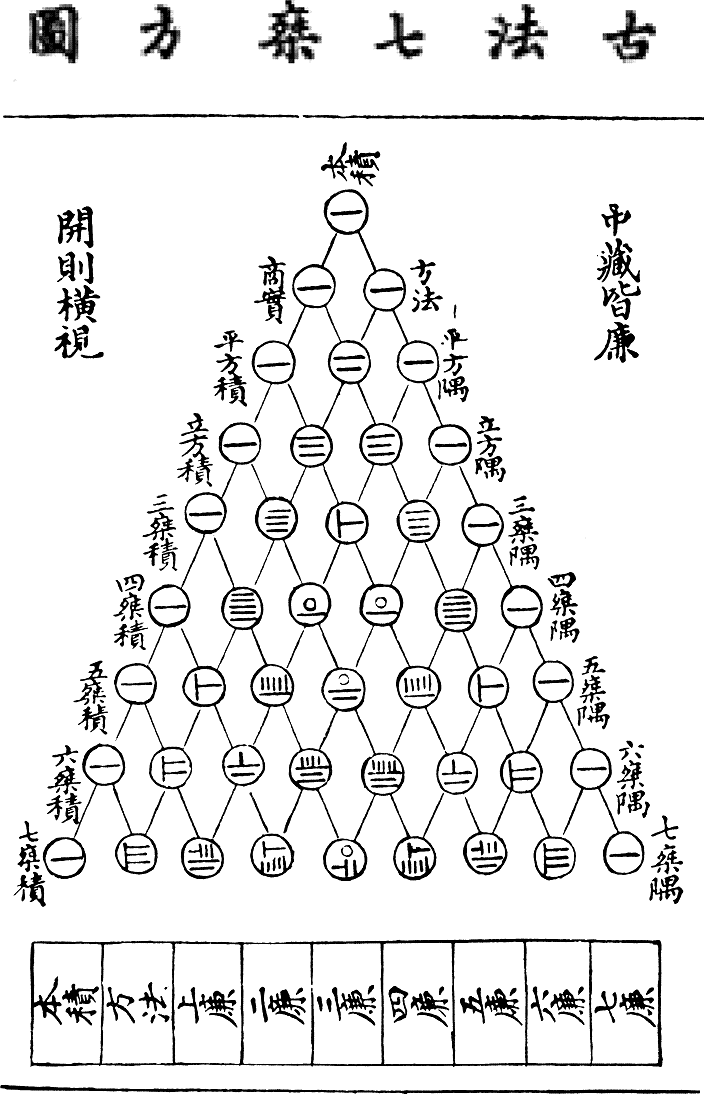 Drawing of Pascal's Triangle published in 1303 by Zhu Shijie (1260-1320), in his Si Yuan Yu Jian. It was called Jia Xian triangle or Yanghui Triangle by the Chinese, after the mathematician Jia Xian and Yang Hui. The fourth entry from the left in the second row from the bottom appears to be a typo (34 instead of 35, correctly given in the fifth entry in the same row).